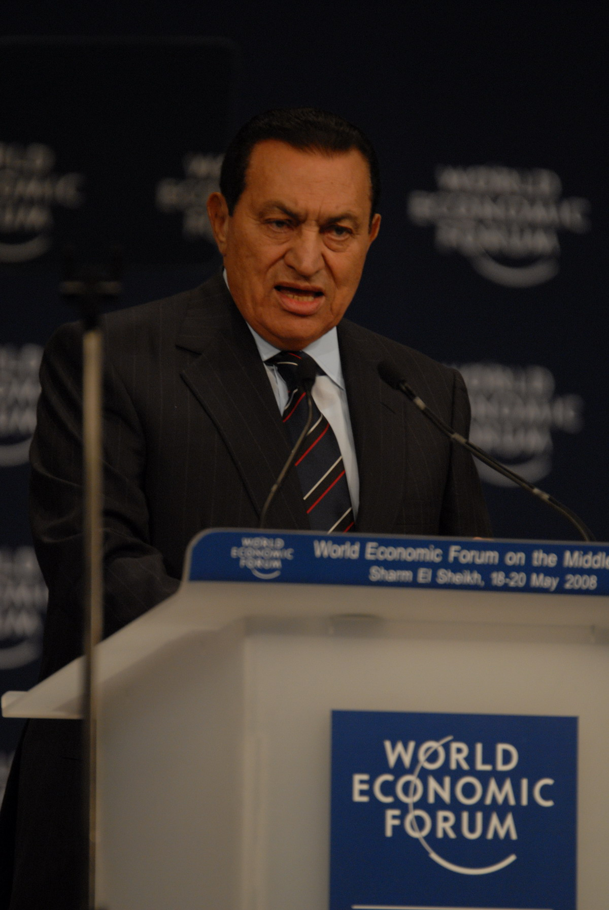 SHARM EL SHEIKH/EGYPT, 18MAY08 - Muhammad Hosni Mubarak, President of Egypt addressing the Opening Plenary session of the World Economic Forum on the Middle East 2008 held in Sharm El Sheikh, Egypt.